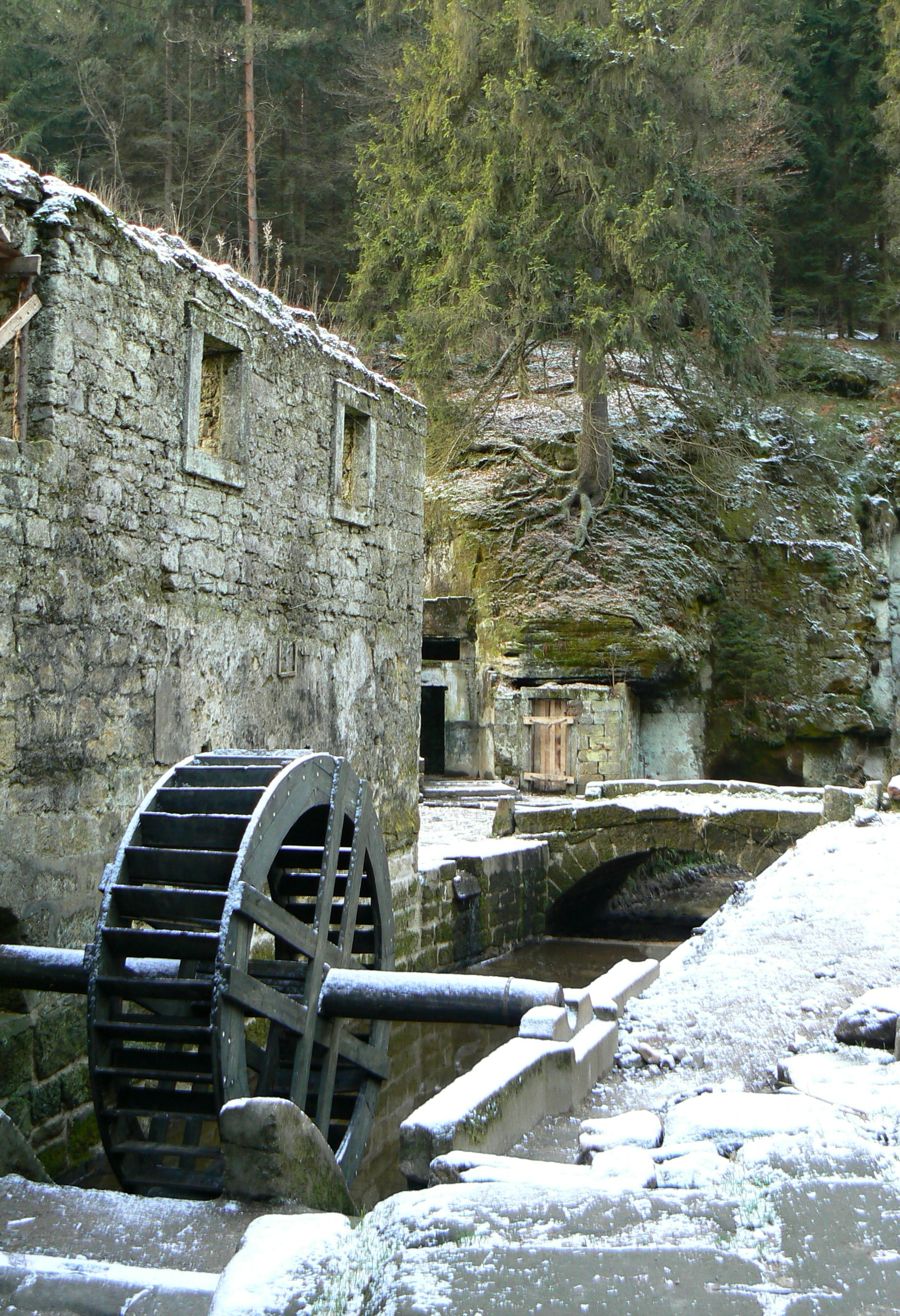 Ruins of the water mill (Dolský mlýn) at Kamenice River; in national park Bohemian Switzerland, Děčín District in Czech Republic